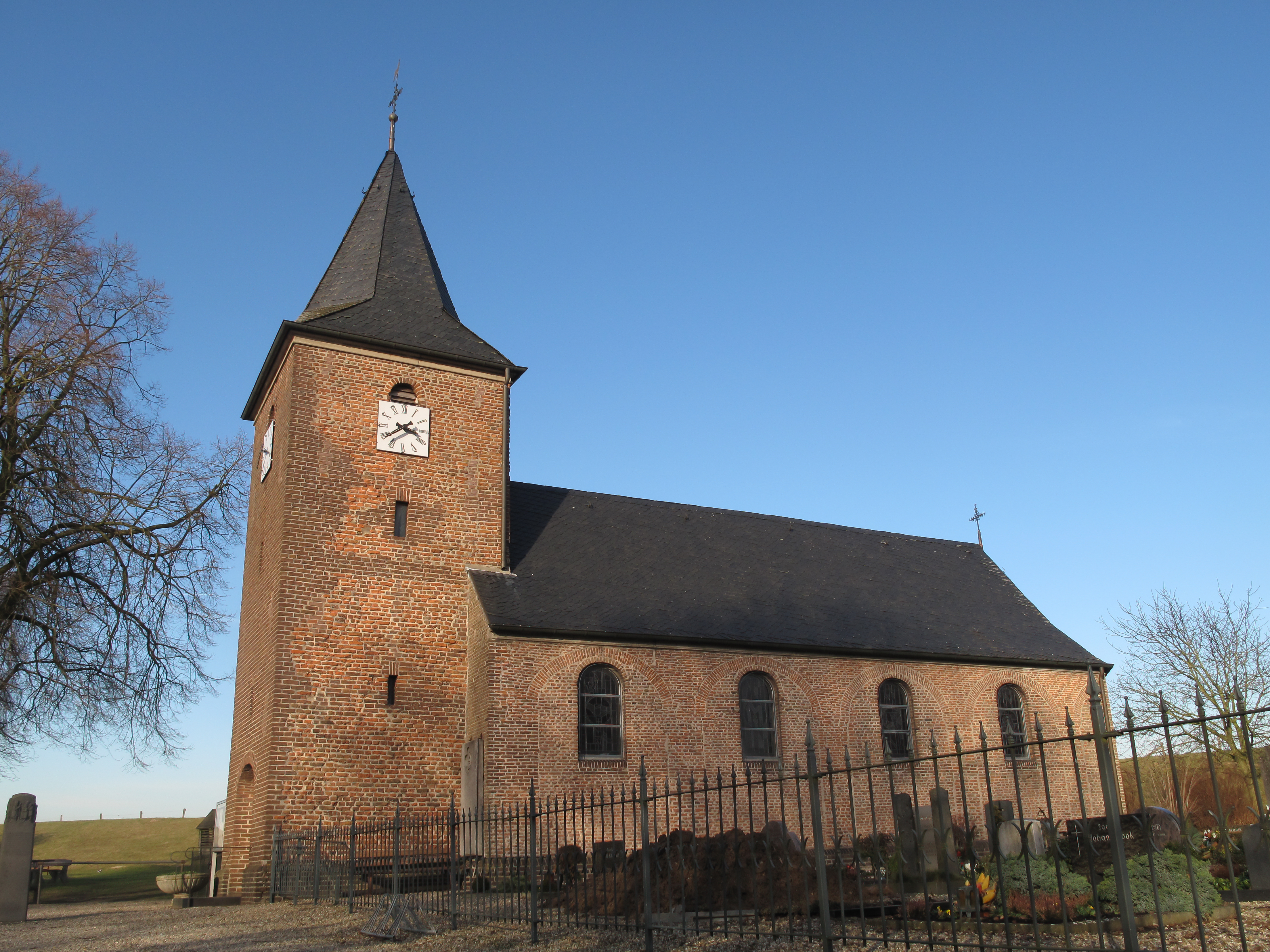 Bimmen, church: Sankt Martinuskirche